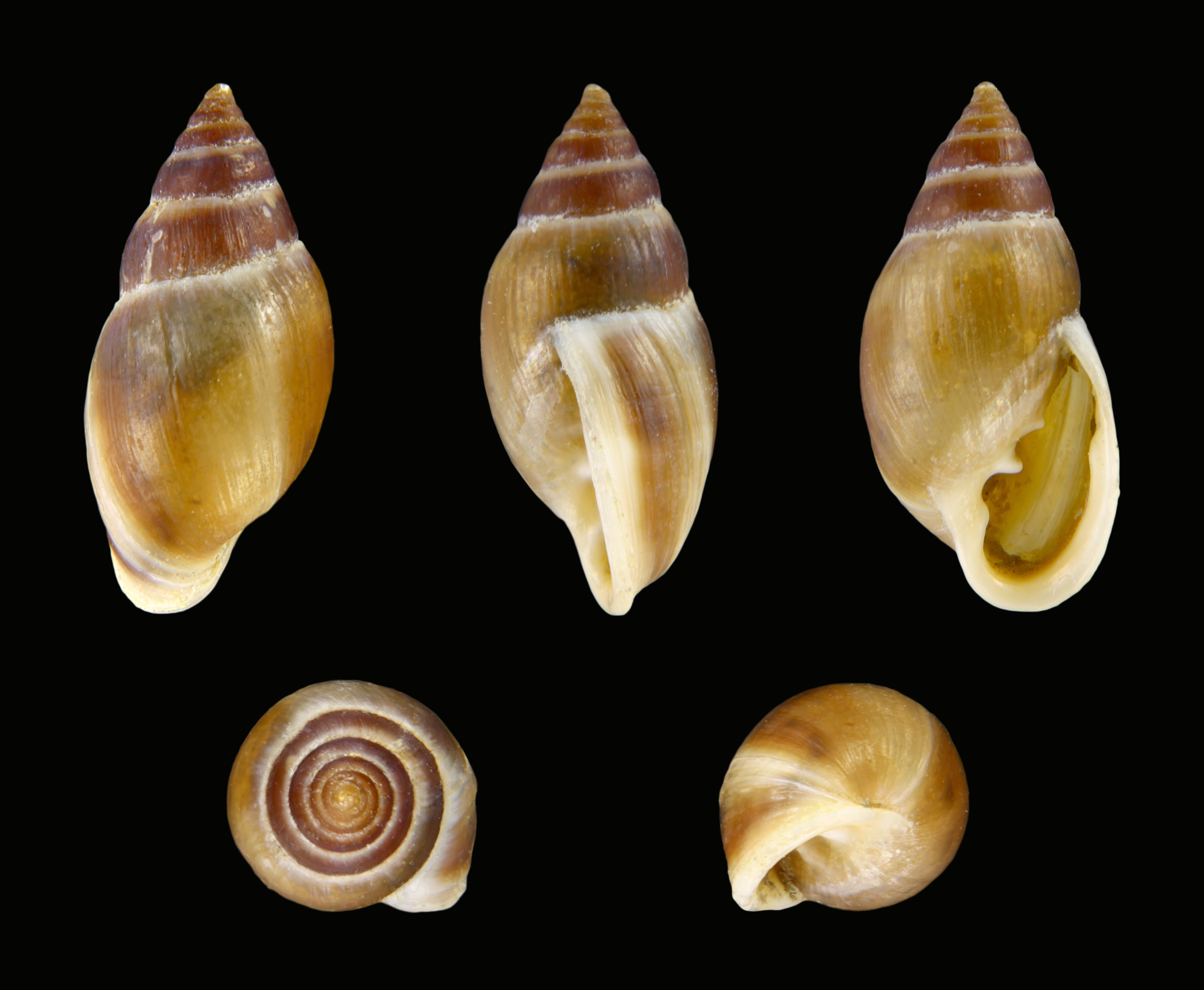 Mouse Ear Ovatella; Length 0.9 cm; Mont Saint-Michel, Normandy; France; Shell of own collection, therefore not geocoded. Dorsal, lateral (right side), ventral, back, and front view.